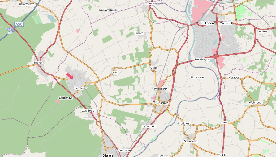 Eerbeek Situation in Brummen municipality, Netherlands.